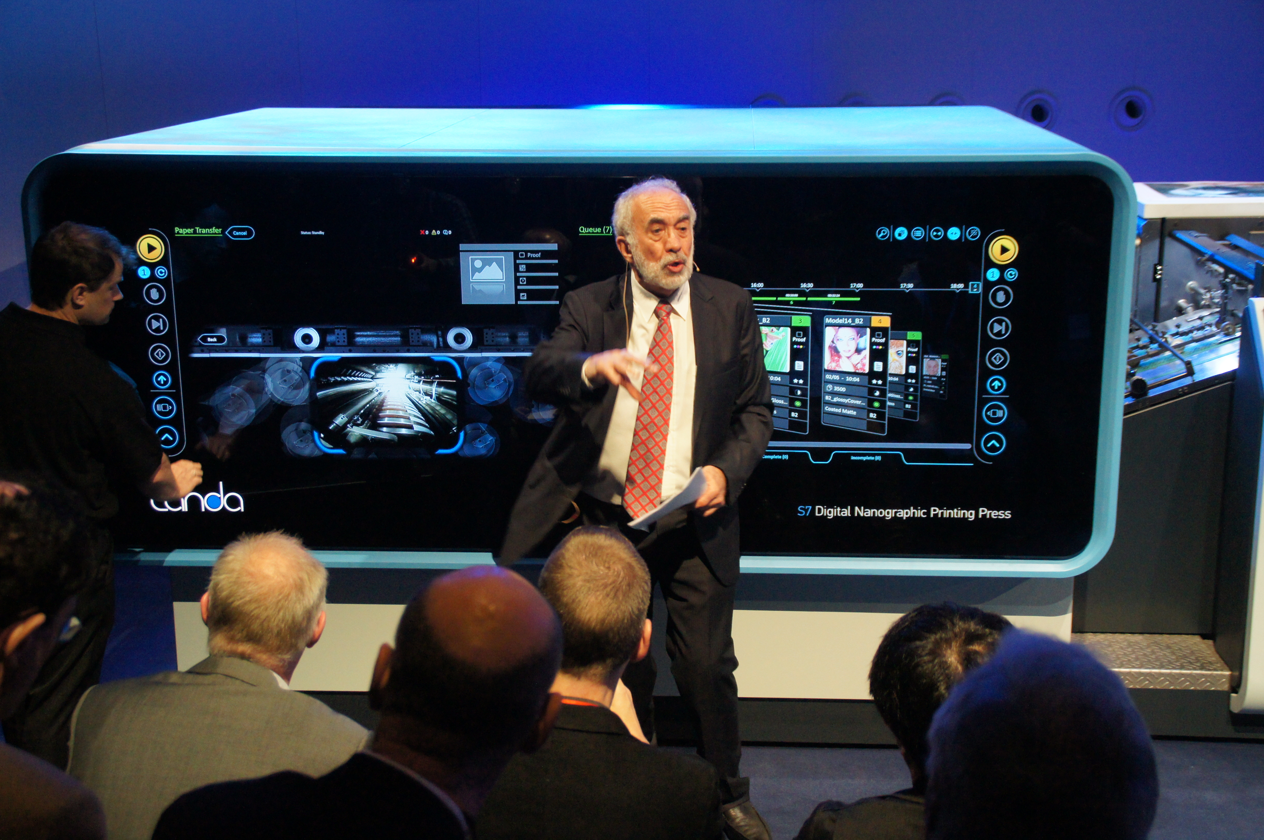 Benny Landa demonstrates his Nanographic Printing technology at drupa 2012